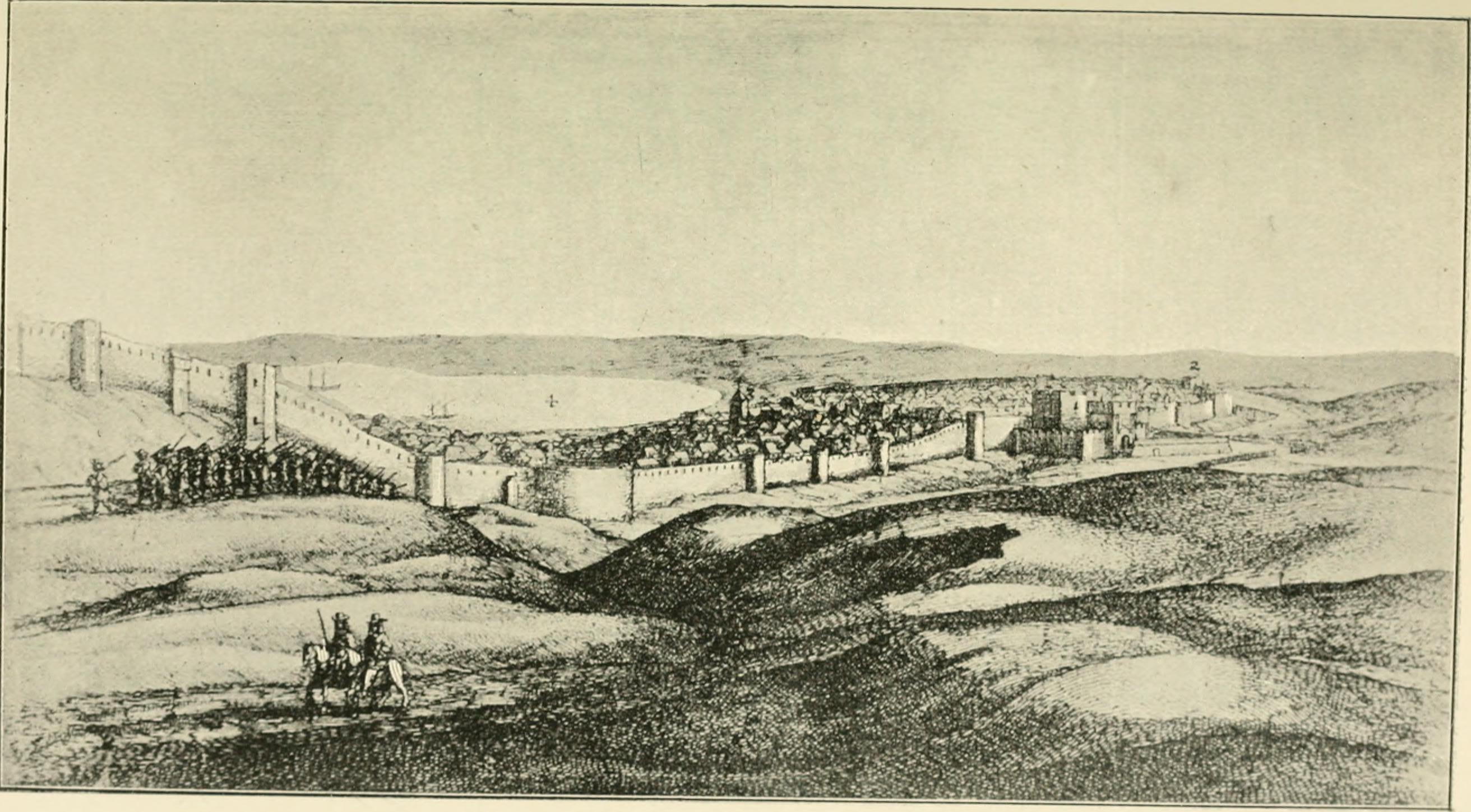 Prospect of Tangier from the west, as the Portuguese left it. Road to Marshán. 4. Landing Place. 3. Christian Church. 1. Fort Catherine. 2. Irish Tower. From a drawing by Holler [dating to 1661 x 1673], now in Windsor Castle. Title: The land of the Moors; a comprehensive description Year: 1901 (1900s) Authors: Meakin, Budgett Subjects: Morocco -- Description and travel Publisher: London : S. Sonnenschein & co., lim. New York, The Macmillan company